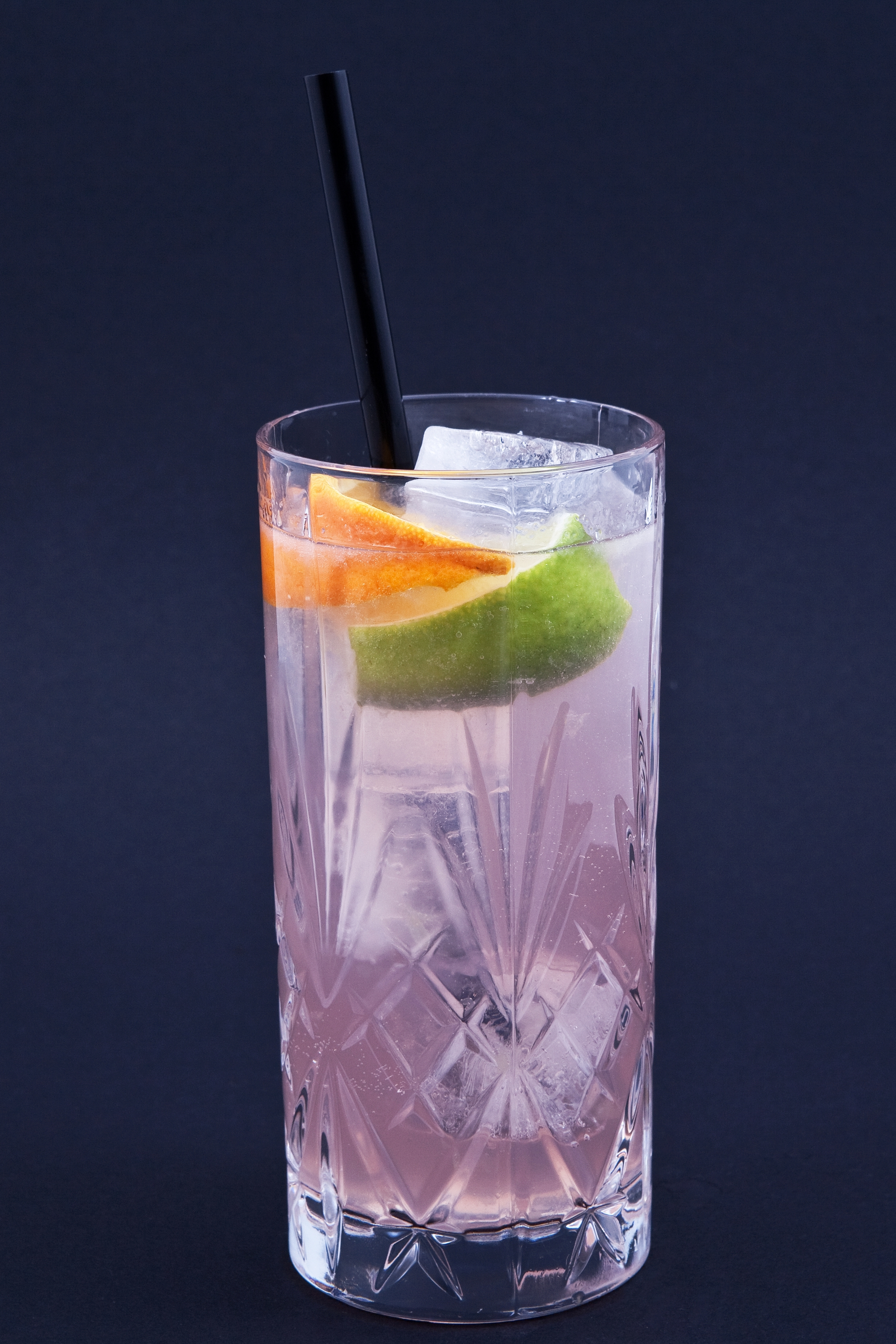 Paloma, a longdrink made with Tequila and grapefruit lemonade.